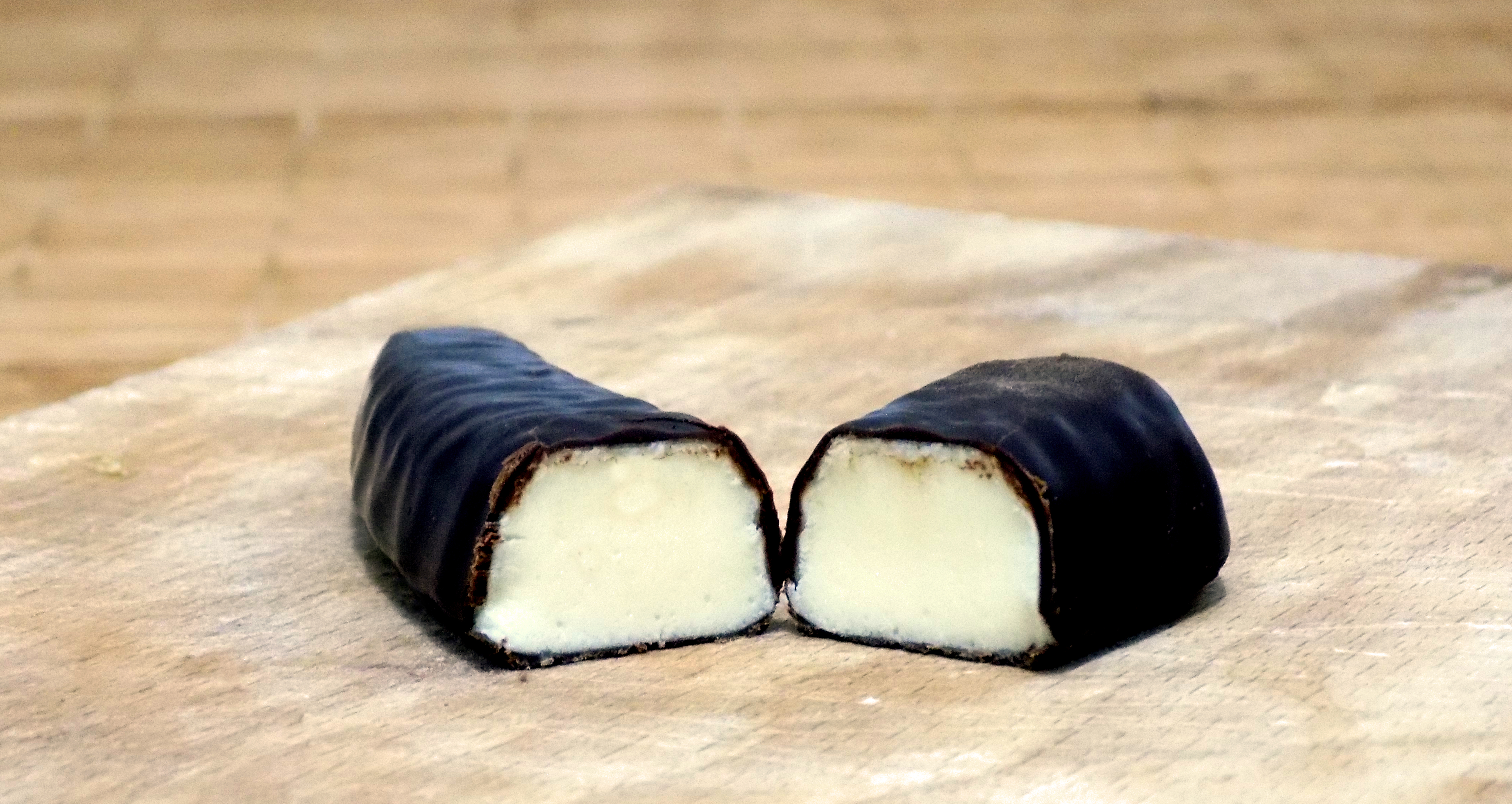 "Bananica" (Cream banana), Serbian brand since 1938. - cream made of gelatinized egg whites covered with chocolate